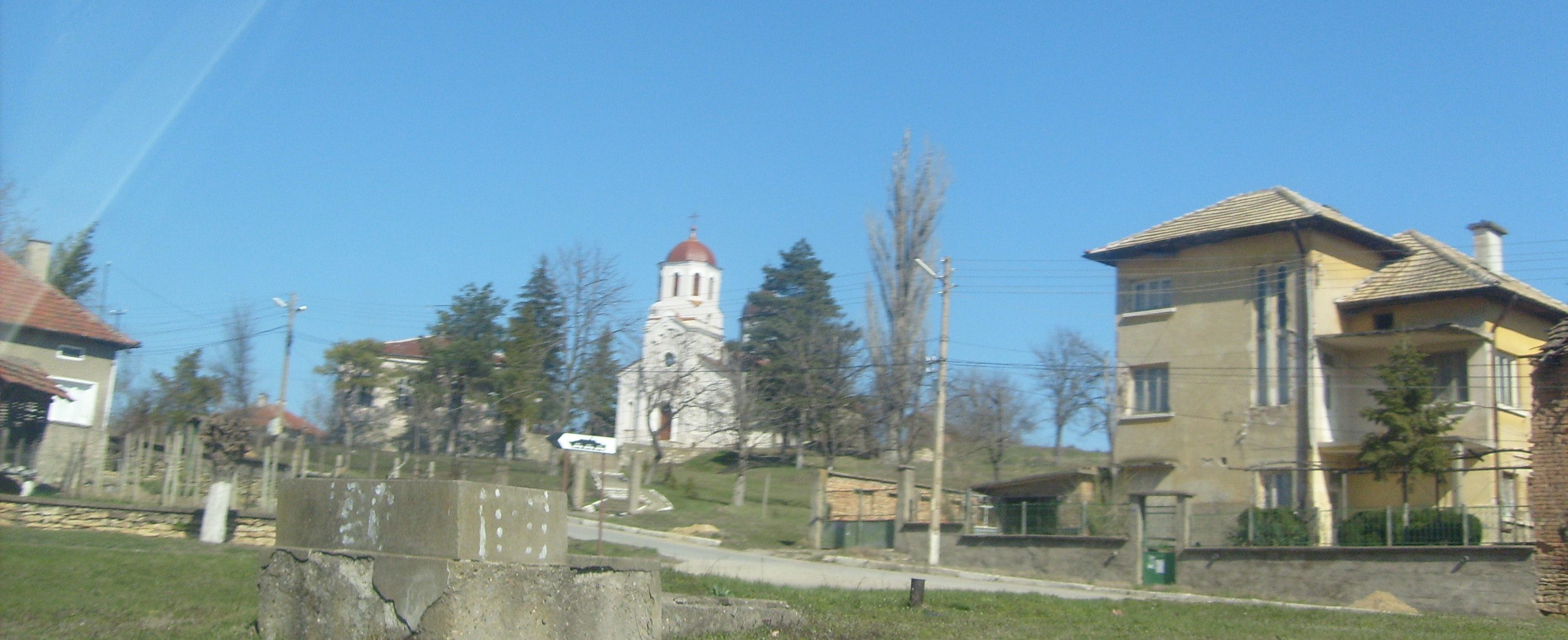 Knezha, Pleven Province, Bulgaria